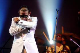 Charly B at the Rototom Sunsplash Festival 2010, Lion Stage